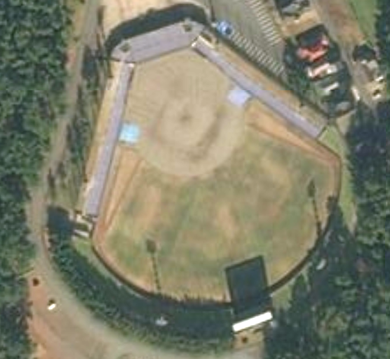 Satellite view